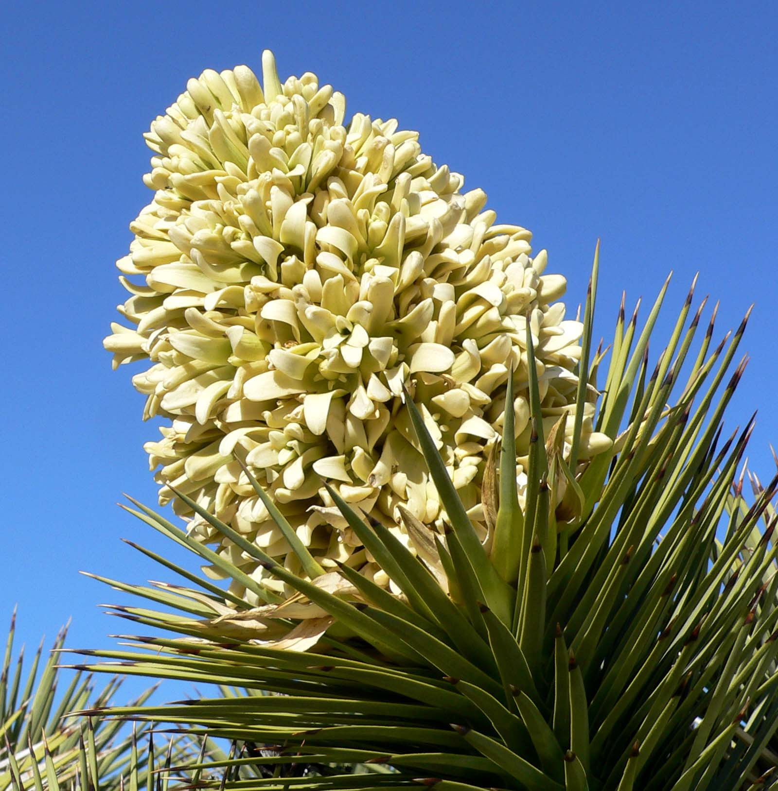 Closeup of Yucca brevifolia inflorescence in Red Rock Canyon